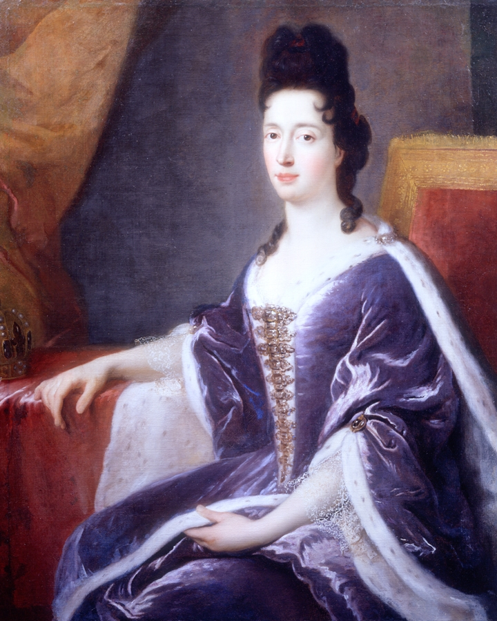 James II's Queen, Mary of Modena, in exile.